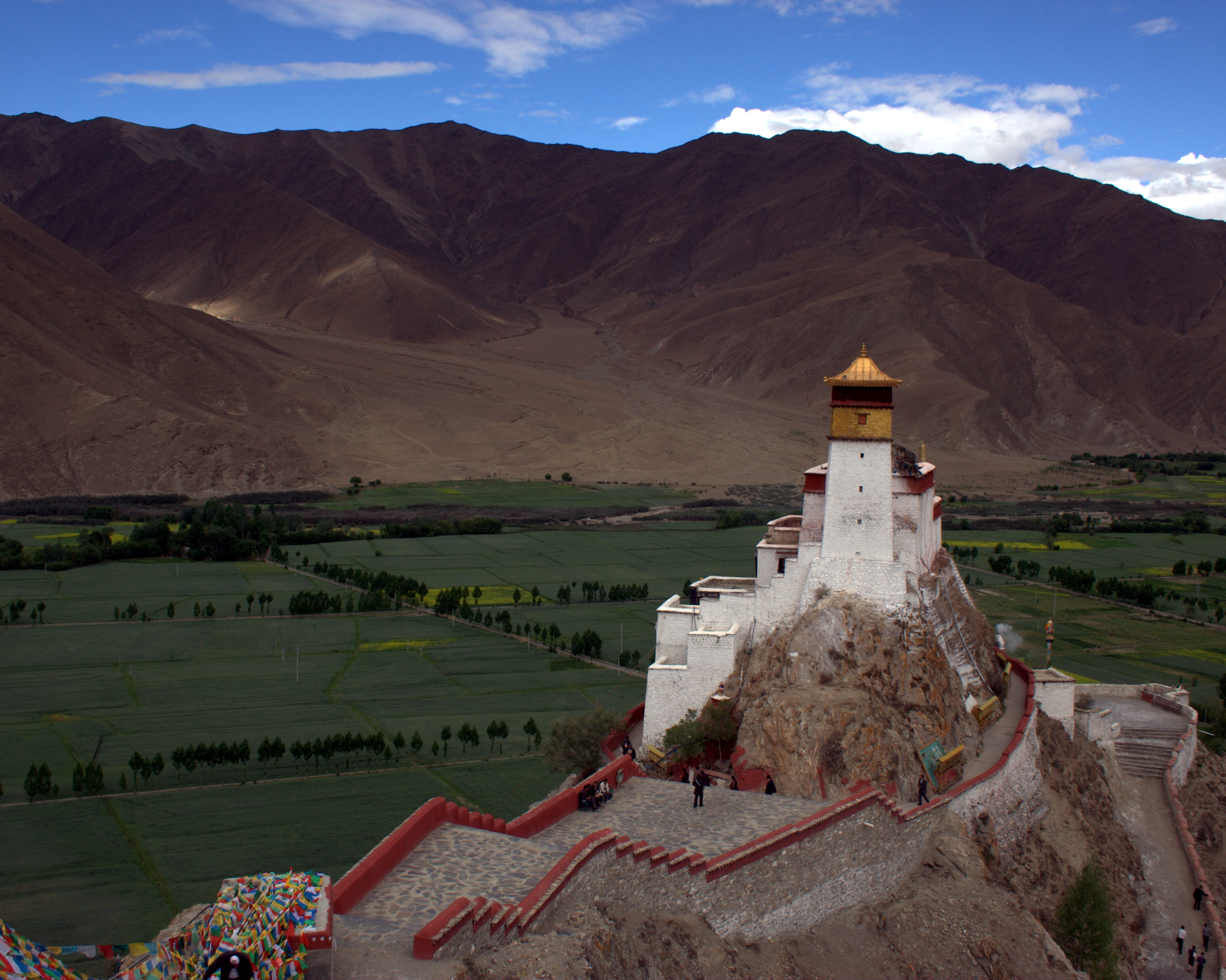 Yumbulagang Palace from Above.